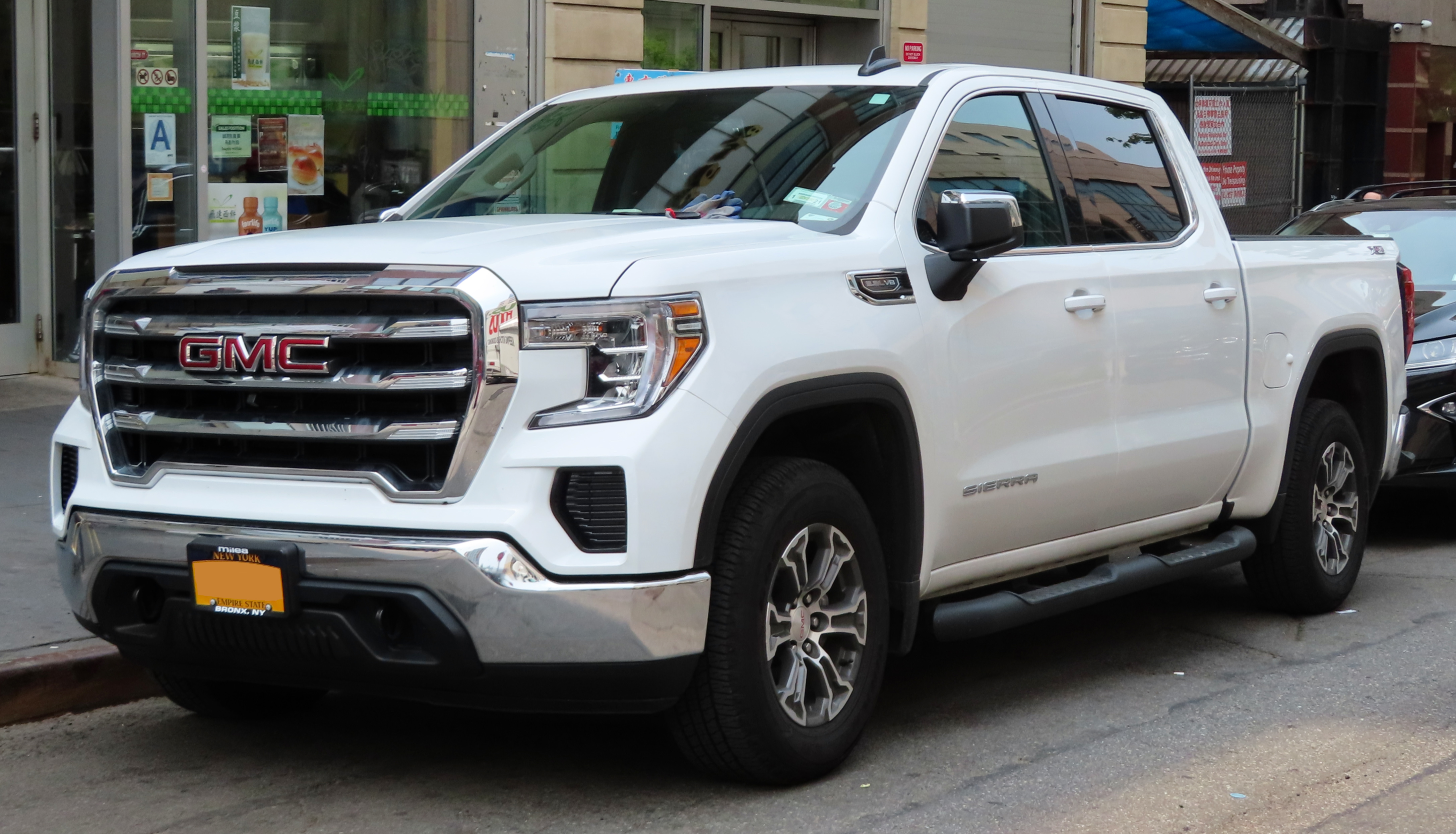 A 2019 GMC Sierra 1500 SLE photographed in Flushing, Queens, New York, USA